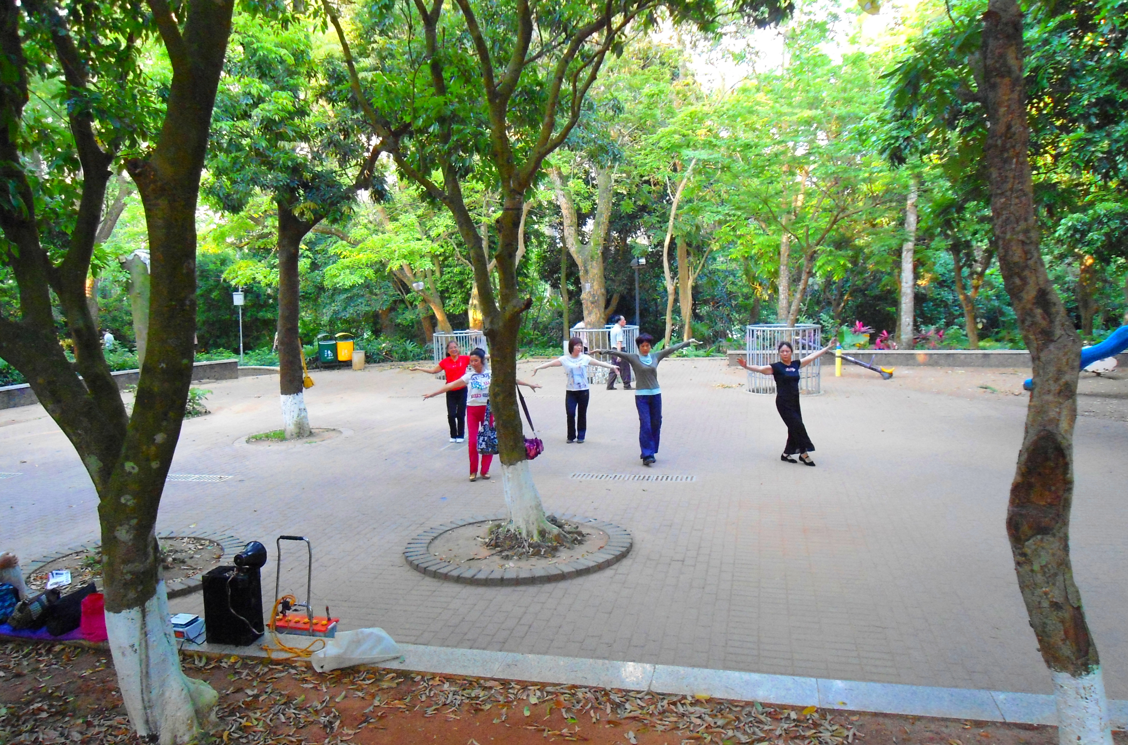 Chinese fitness dancing in Haikou People's Park, Haikou City, Hainan Province, China